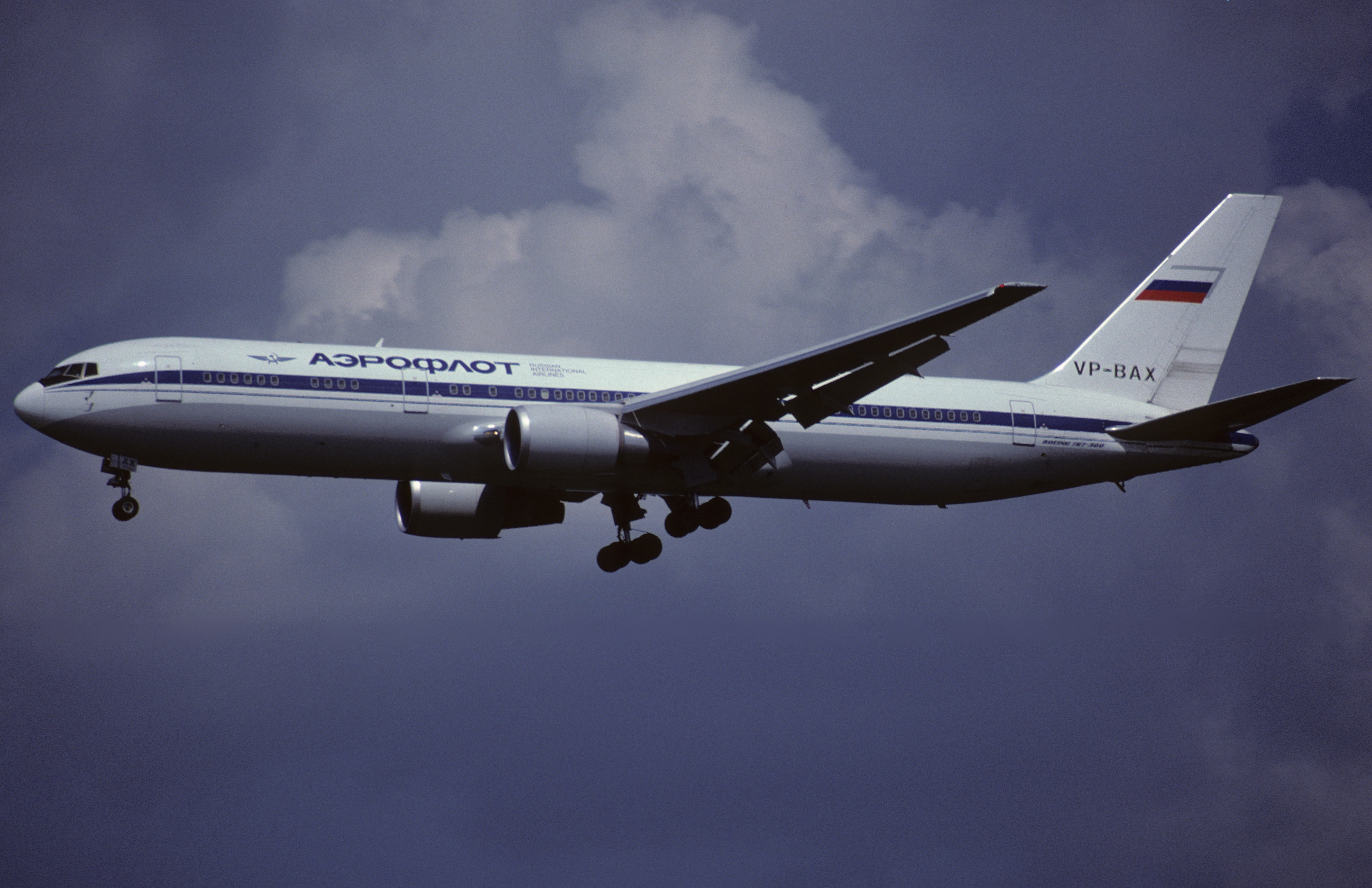 This Boeing 767-36NER took its first flight on September 22, 1999 and was delivered to SU on October 1, 1999...(c/n 30109/ 767)